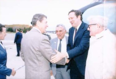 President Ronald Reagan, George Pataki, Richard Coombe, William Lark, Robert Williams, Caspar Weinberger, Benjamin Gilman, Sam Delitte, and Robert Hackett, (Not in all Photos) (2-13) Trip to New York, departure on Air Force One President Ronald Reagan, Benjamin Gilman, and Peter Robinson, (Not in all Photos) (14-23) Trip to New York, flying aboard Air Force One President Ronald Reagan, Caspar Weinberger, and Ken Duberstein, (Not in all Photos) (24-26) Trip to New York, return on Air Force One to Andrews Air Force Base